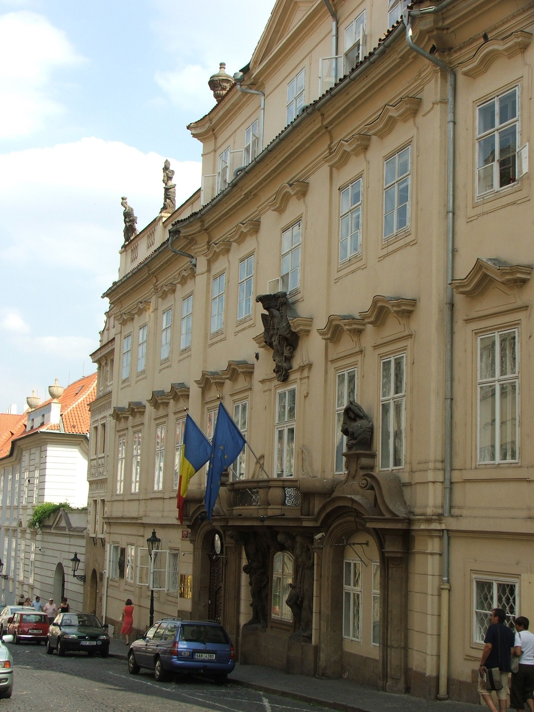 Morzin Palace - seat of Embassy of Romania in Prague - Malá Strana, Czechia